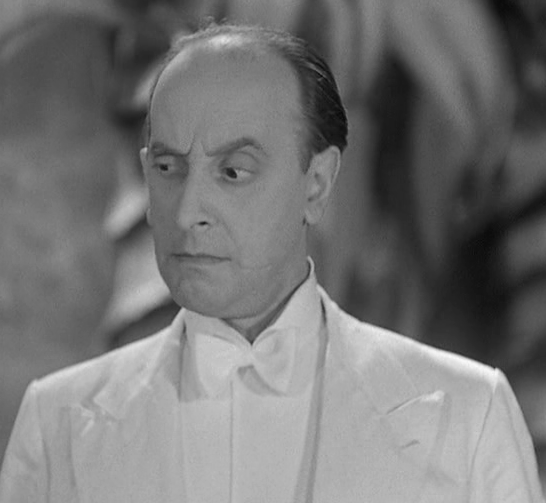 Franco Coop in a scene of the film Fermo con le mani